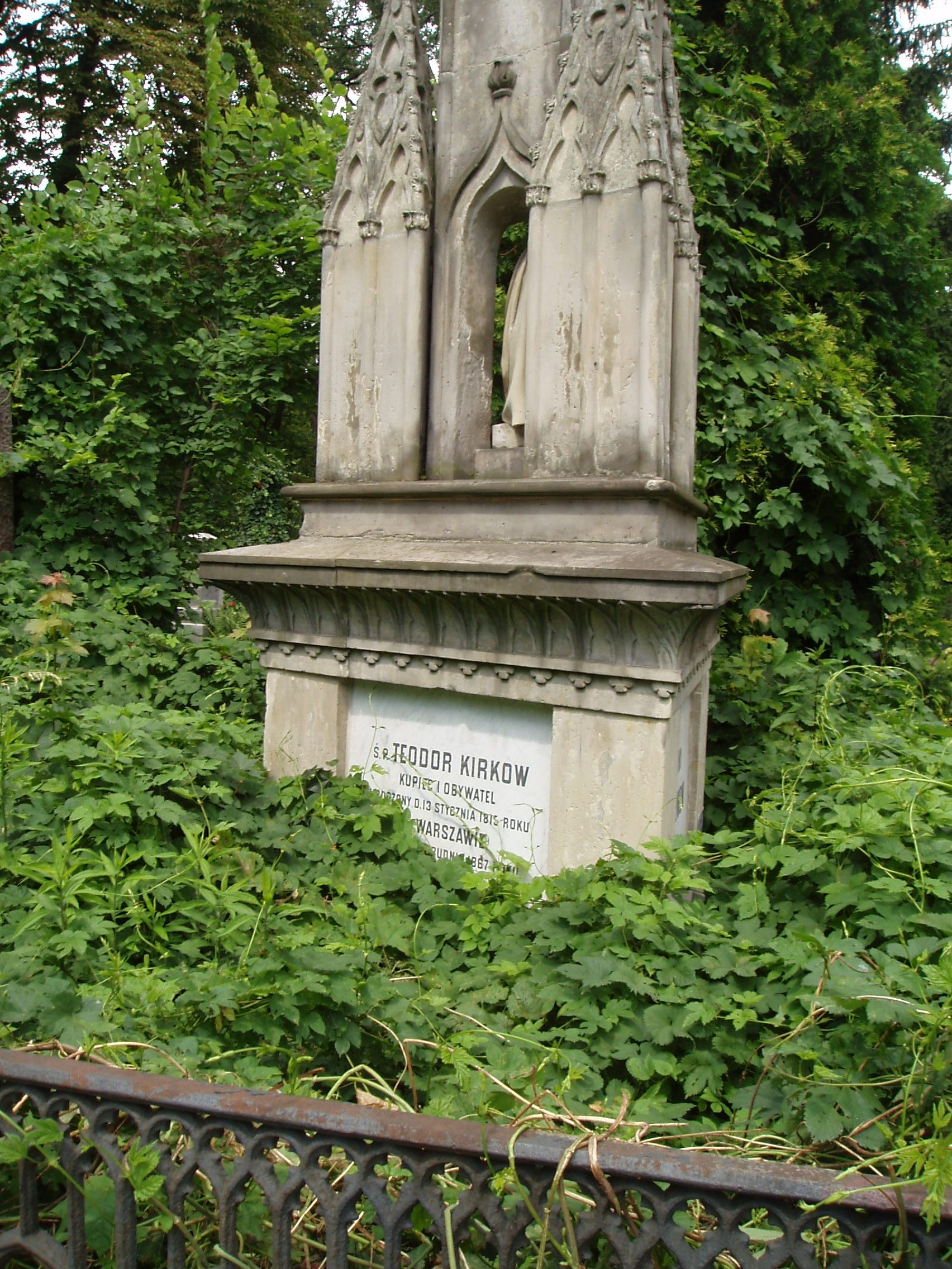 Kirkow family headstone,Greek-orthodox section of the lutheran cemetery in Warsaw